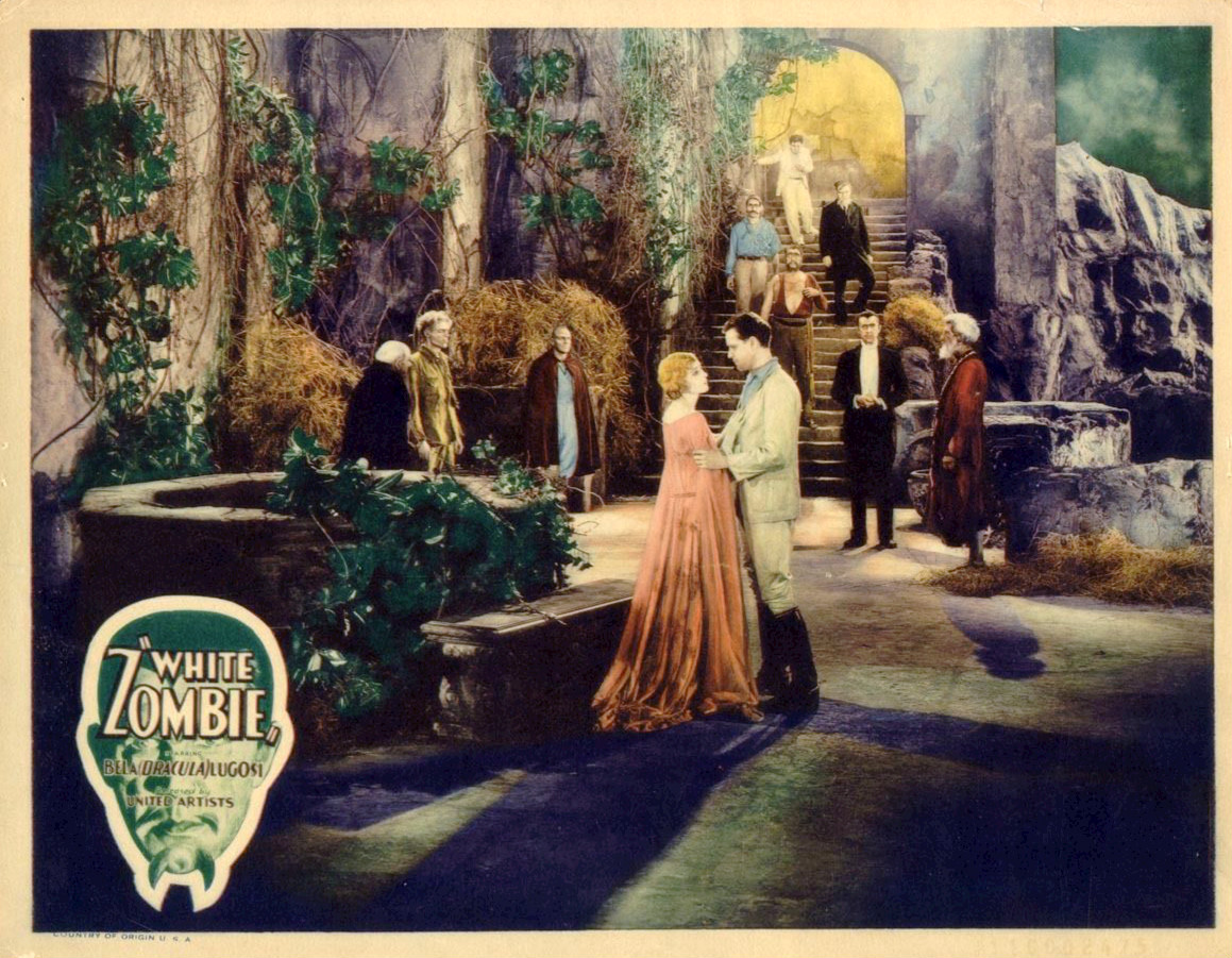 Lobby card for the 1932 film White Zombie.